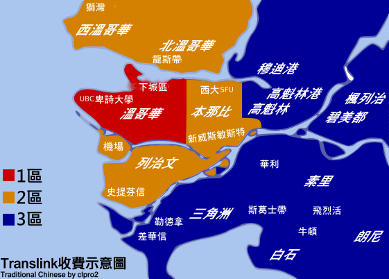 Translink fare map of Vancouver's Sky train in Chinese